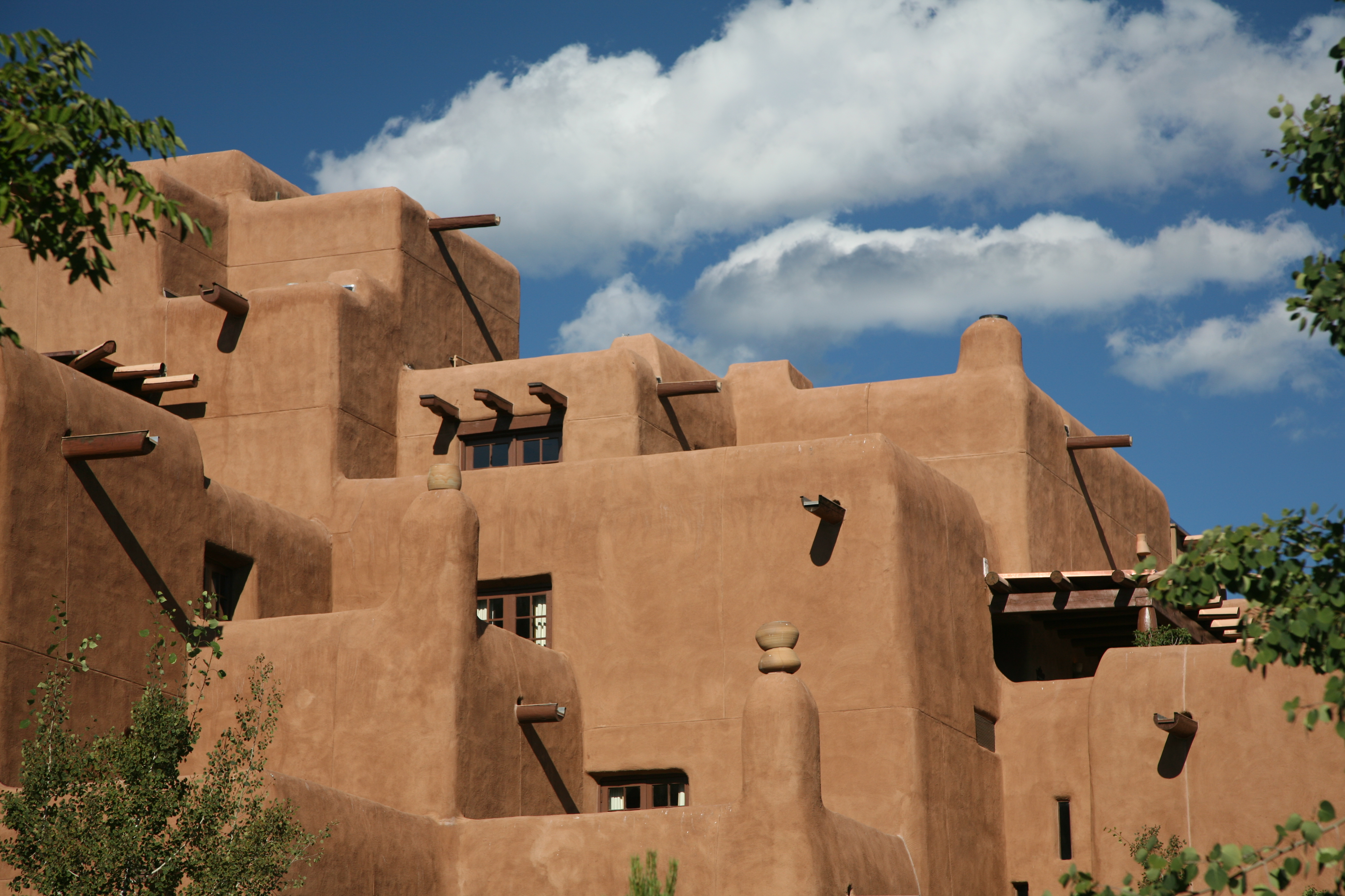 Adobe pueblo revival style architecture in Santa Fe, New Mexico.